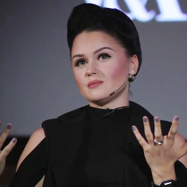 "altered Beauty" Virtual Futures video screenshots of Viktoria Modesta (born on 25 February 1987 as Viktorija Moskaļova in Daugavpils, Latvia) is a Latvian-born English singer-songwriter performance artist and model